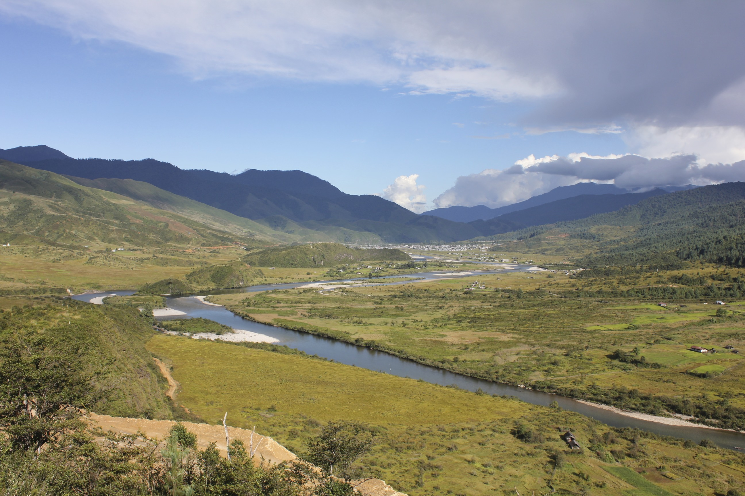 View from the old monastery.